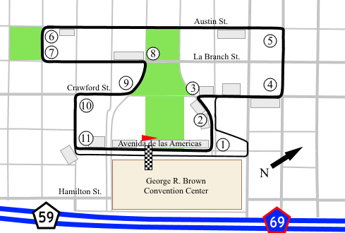 Original layout of the track for the Grand Prix of Houston (1998-2001). Transparent background.